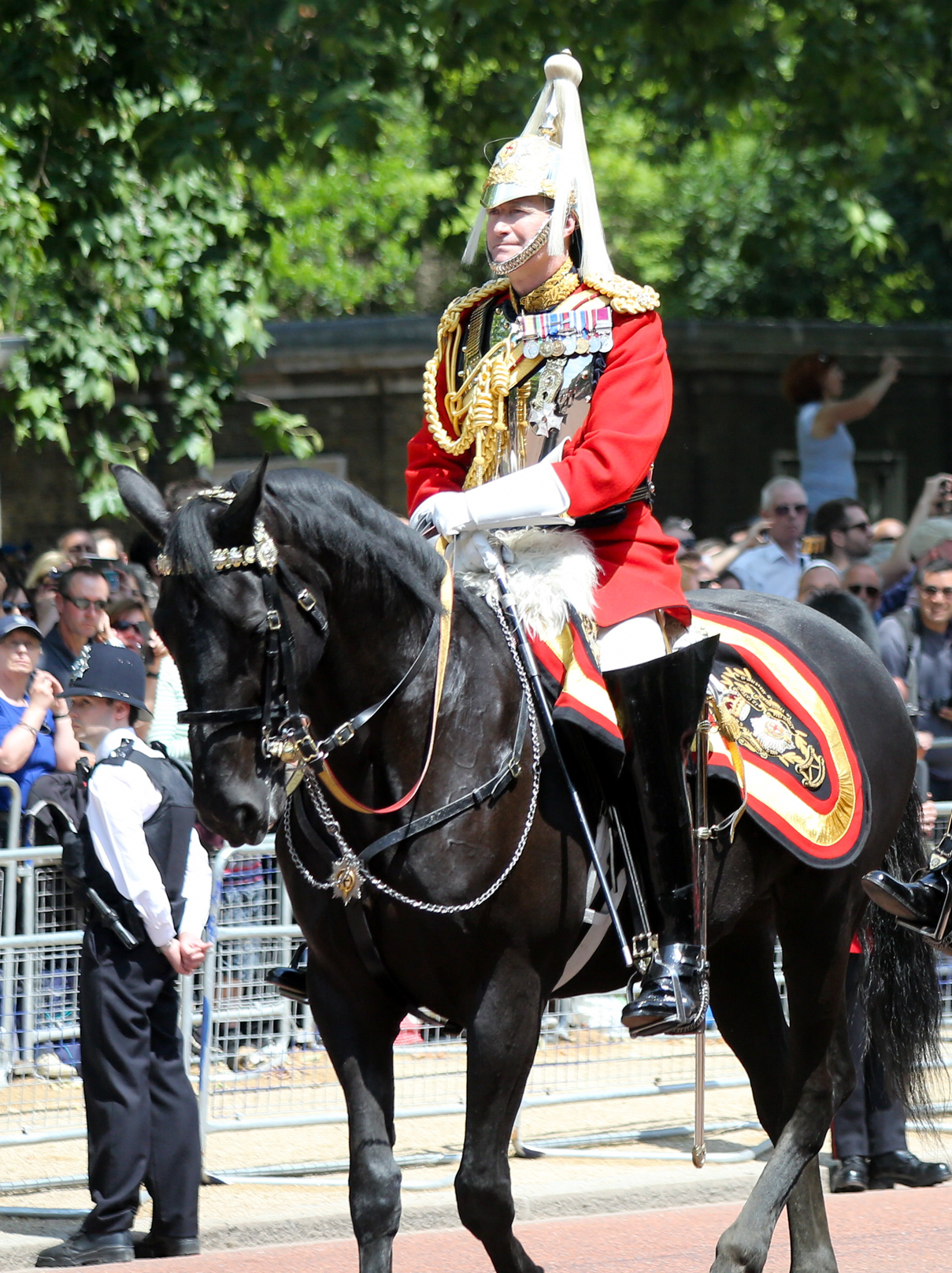 Lieutenant Colonel James D A Gaselee as Lieutenant Colonel Commanding Household Cavalry, and Silver Stick-in-Waiting.